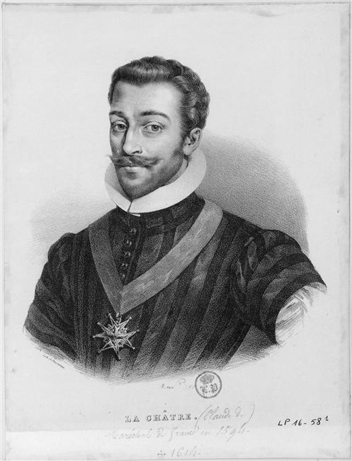 Artist AnonymousUnknown authorTitle